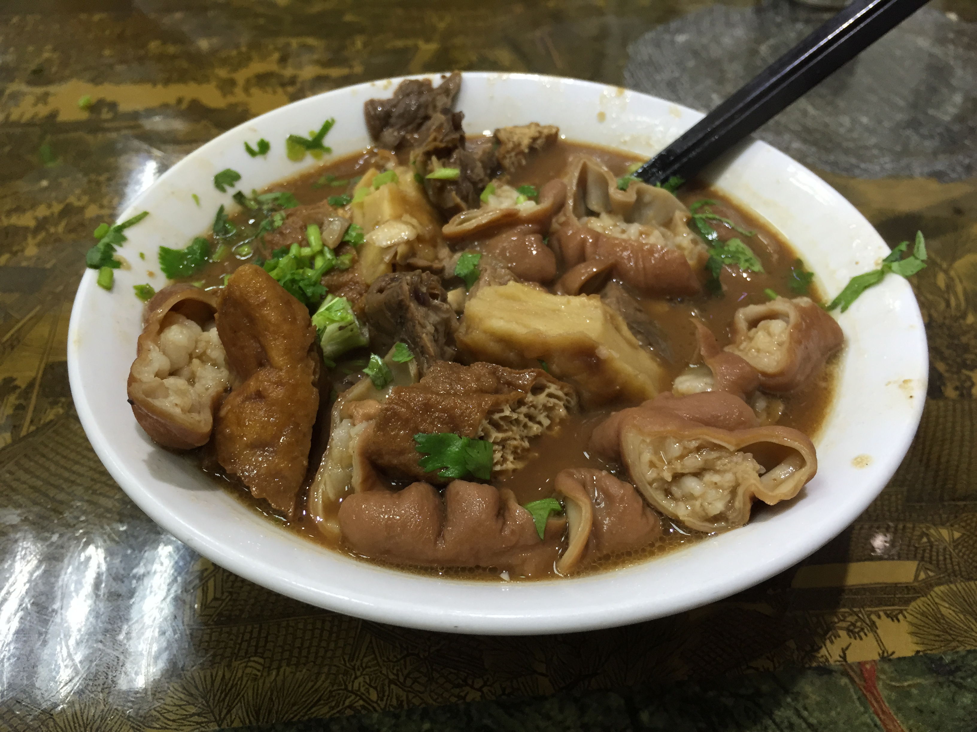 Now you know what Huoshao is? Flapjack.